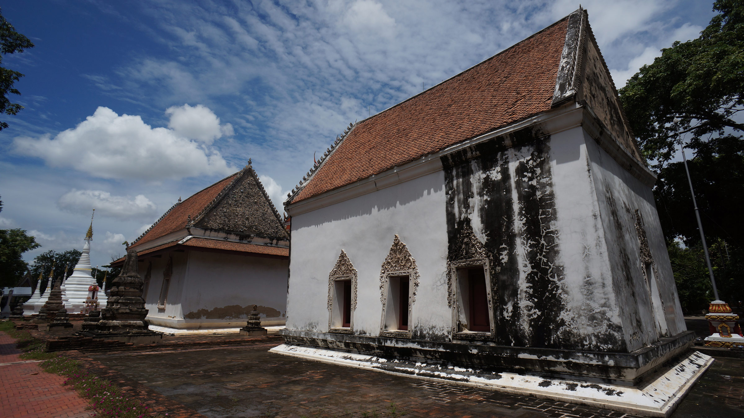 The old ubosot (on the left back) and vihara (on the right front) of Wat Chom Phu Wek